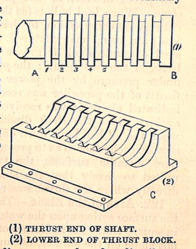 Multiple-collar Thrust block